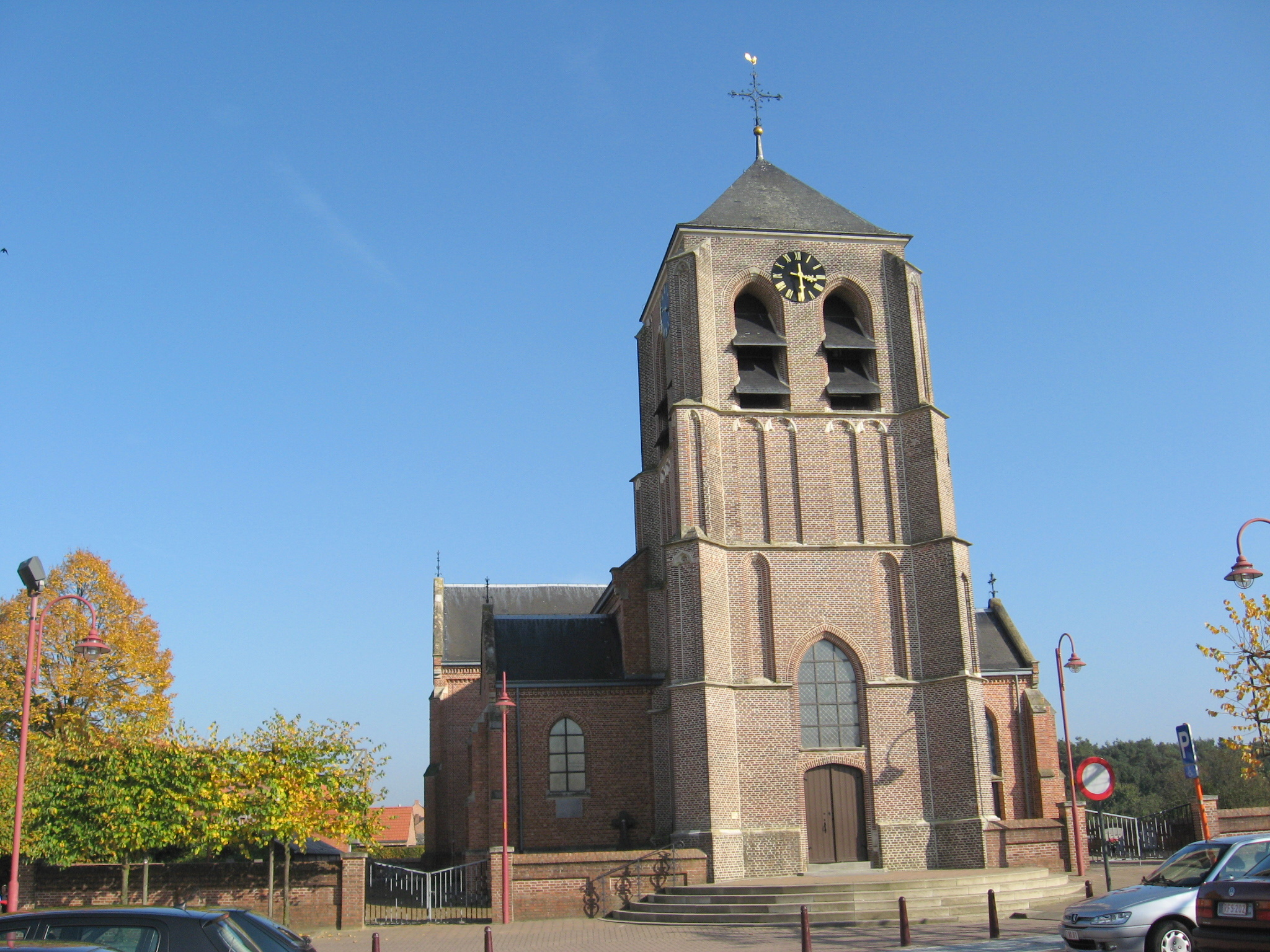 Church of Saint Lambert in Bel, Geel, Antwerp, Belgium